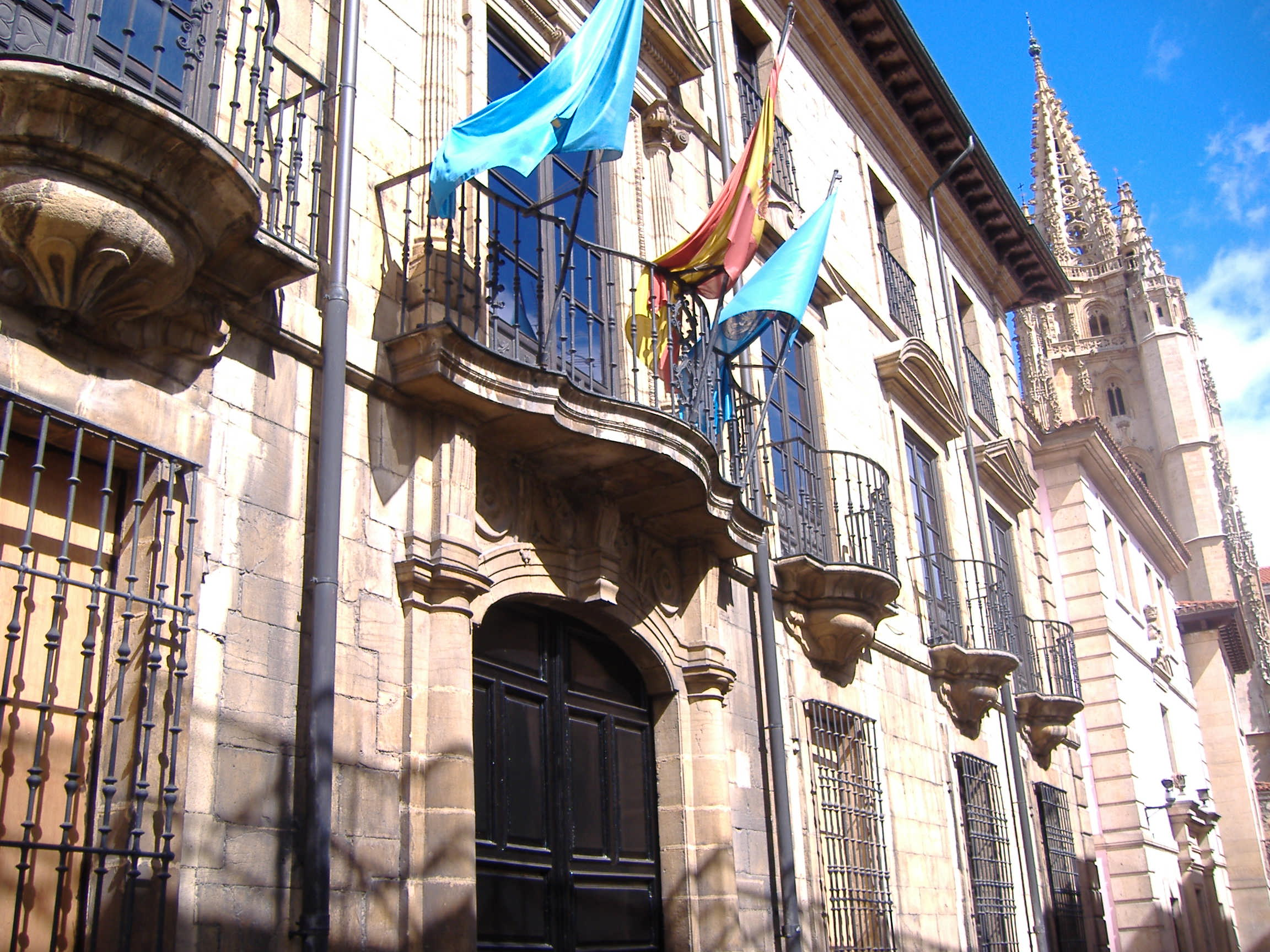 Fine Arts Museum of Asturias, Oviedo, Spain.